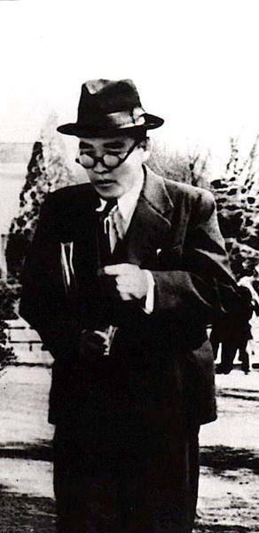 Heo Heon, Korean resistance avtivists, a father of Heo Jong-suk and Heo Keun-uk